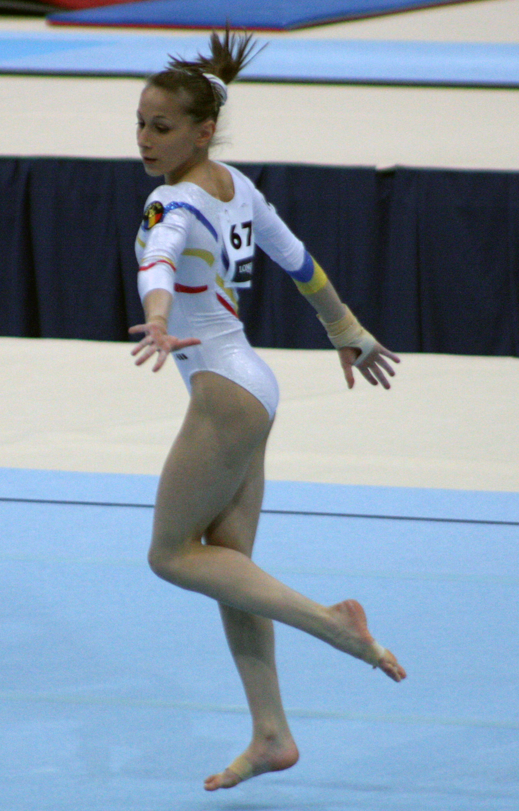 The photo is taken at the 2010 Artistic Gymnastics World Championships, Ahoy Rotterdam, 24 October 2010, apparatus finals. Floor finals, Diana Maria Chelaru, Roumania.